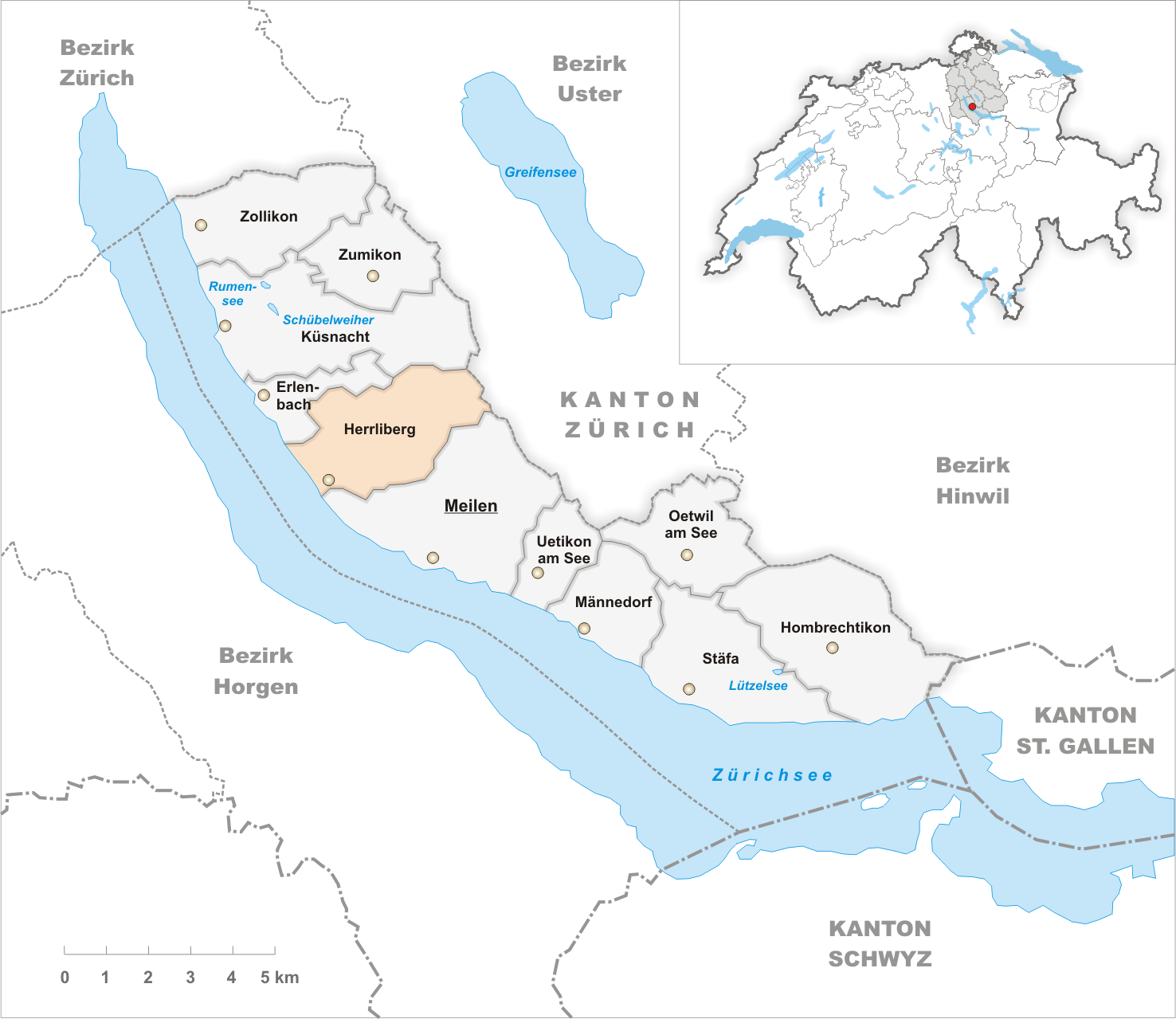 Municipality Herrliberg